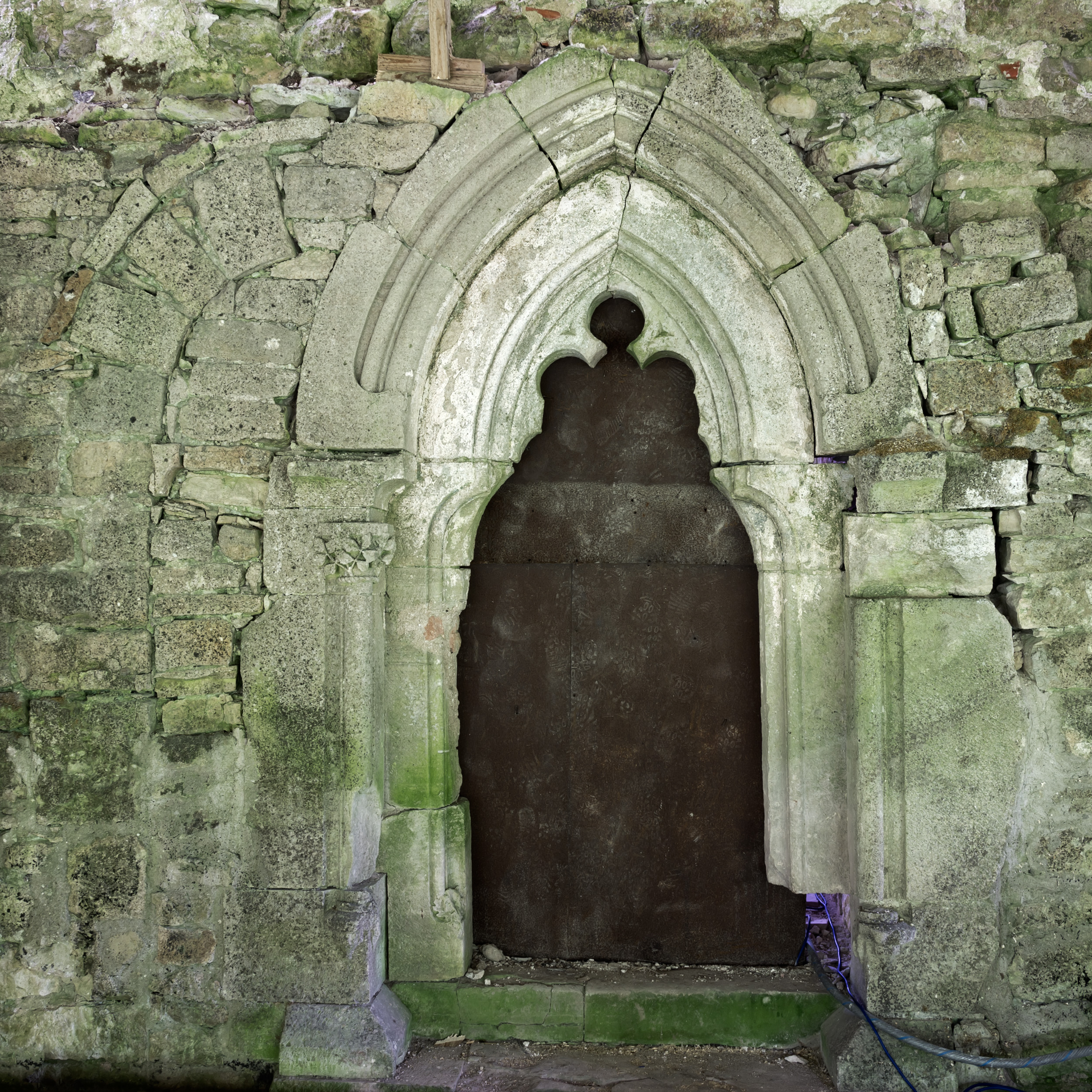 North portal of Pöide church